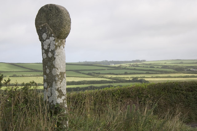 Jobs' Cross on the road from Trewethern to St. Kew This is a restored Celtic cross. The stem was found being used as a stepping stone across a nearby creek, and the cross was reconstructed completely, using local stone.